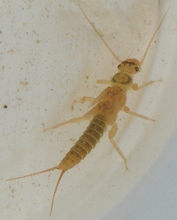 Stonefly larva